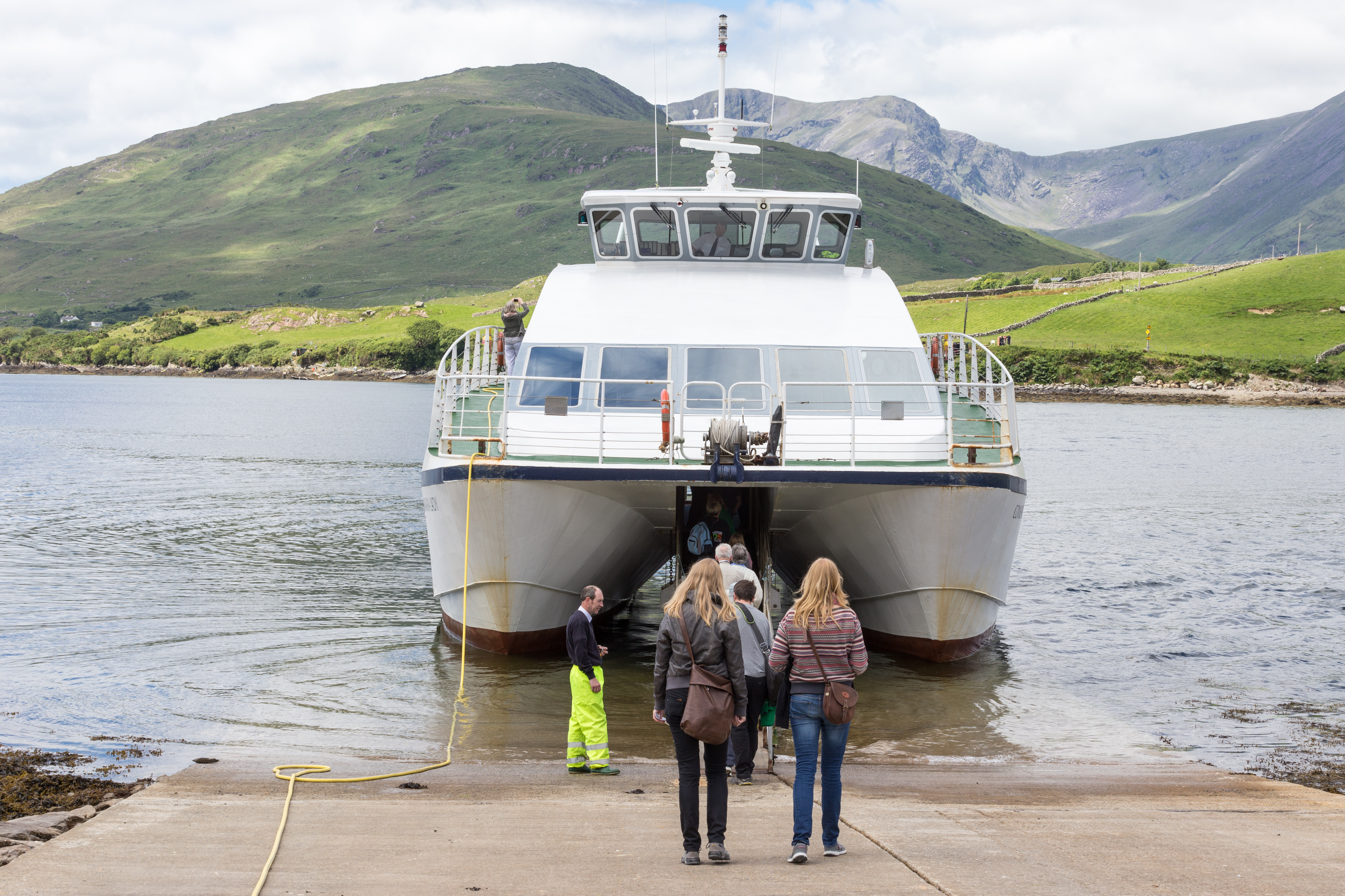 Boarding "Connemara Lady" at Killary Harbour (2014), Co. Galway, Ireland.